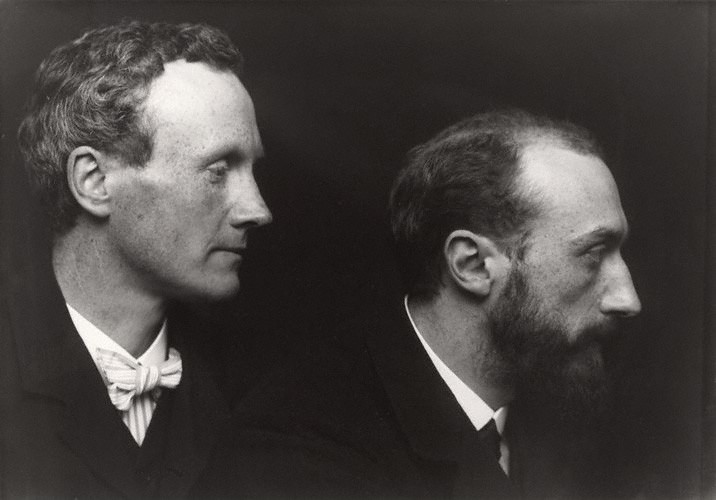 Charles Haslewood Shannon and Charles Ricketts - modern print from original negative, 4 3/8 in. x 6 1/8 in.